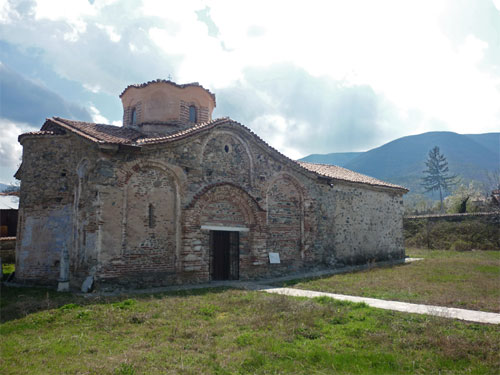 The medieval church of Pataleniza village in Bulgaria